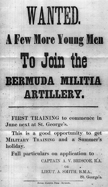 An 1895 recruiting advertisement for the Bermuda Militia Artillery, the local reserve of the Royal Regiment of Artillery in the British colony of Bermuda. Printed in the daily newspaper of the colony, The Royal Gazette.